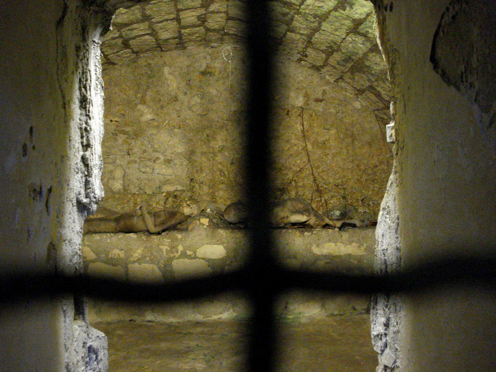 Room for the courpses' preparation in Capuchins Catacombs